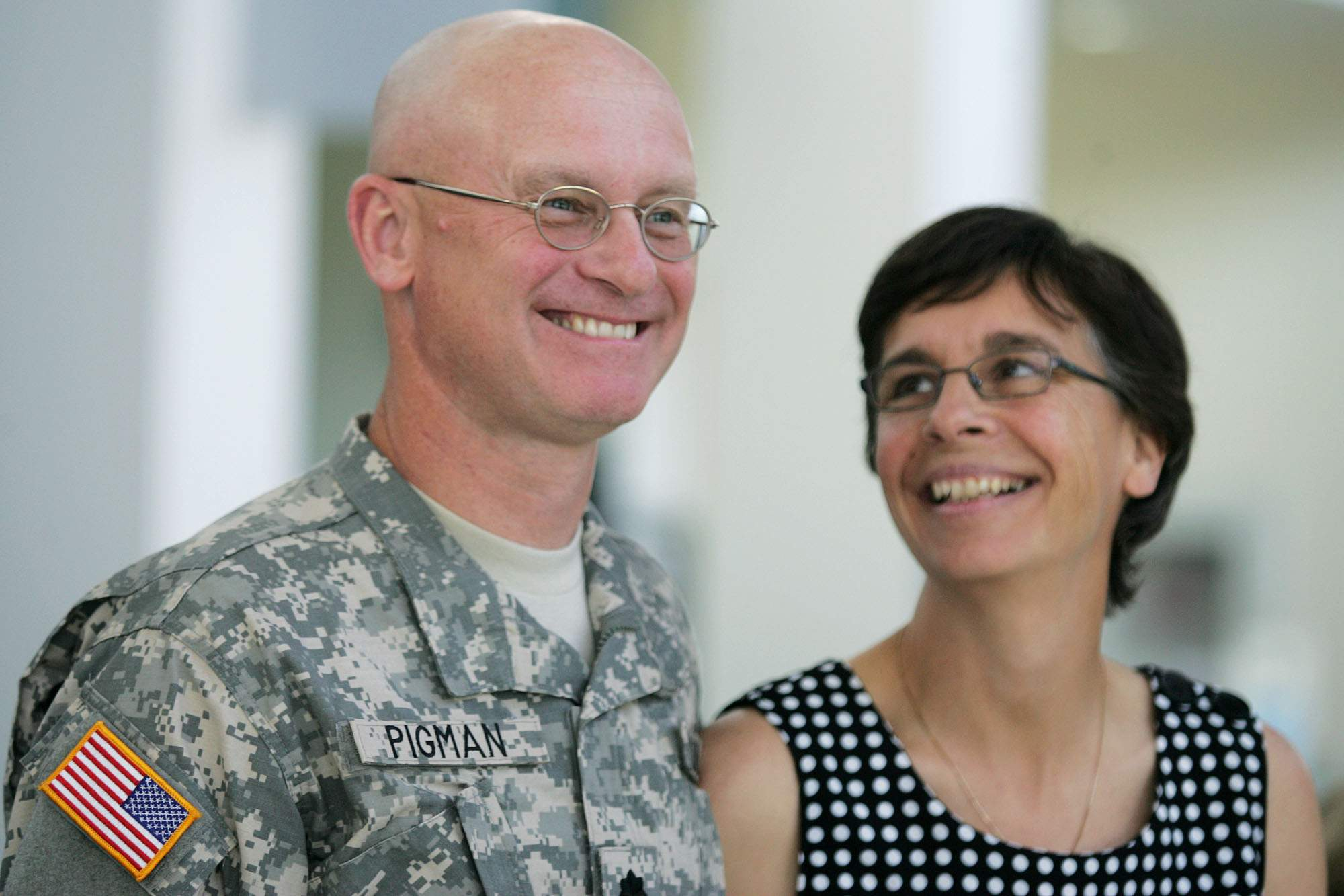 Darlene Pigman looks up at her husband, Rep. Cary Pigman, during a ceremony before his last deployment to Iraq